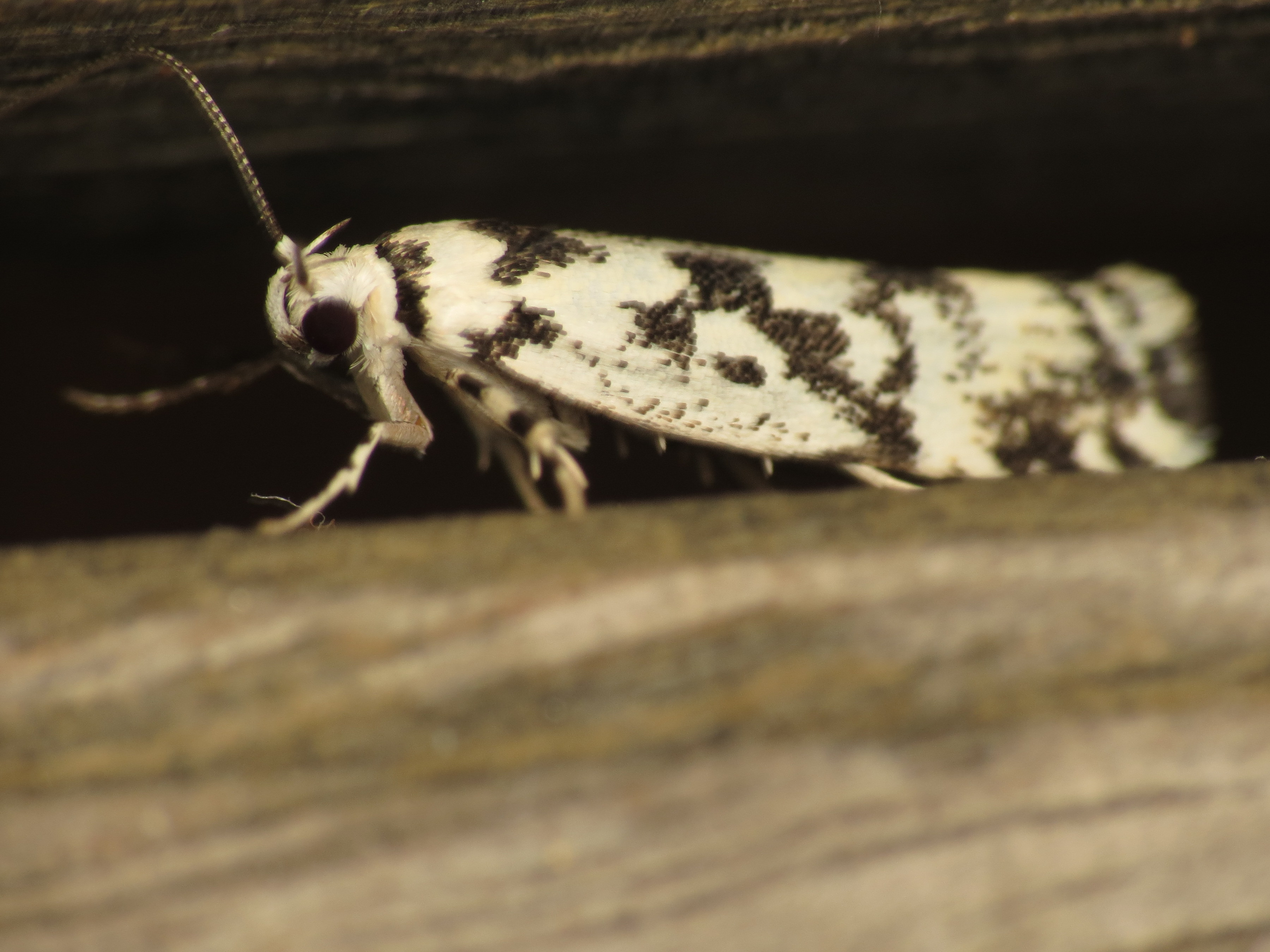 Lichenaula calligrapha Meyrick, 1890, to MV light, Jindabyne, NSW, 9/10 January 2014